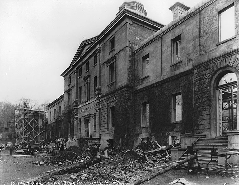 MP-0000.2090.9 Arts Building wing under construction, McGill University, Montreal, QC, 1926 E. W. Bennett 1926, 20th century Notman photographic Archives - McCord Museum MP-0000.2090.9 Le pavillon des arts en construction, Université McGill, Montréal, QC, 1926 E. W. Bennett 1926, 20e siècle Archives photographiques Notman - Musée McCord To see the image file on the McCord Museum website, click on the following link: Pour voir la fiche descriptive de cette photographie sur le site Web du Musée McCord, cliquer le lien suivant